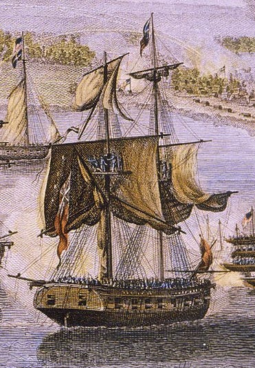 Macdonough’s victory on Lake Champlain and defeat of the British Army at Plattsburg by Genl. Macomb, Sept. 11 1814. Engraverː Benjamin Tanner, after painting by Hugh Reinagle. Lake Champlain Maritime Museum Collection